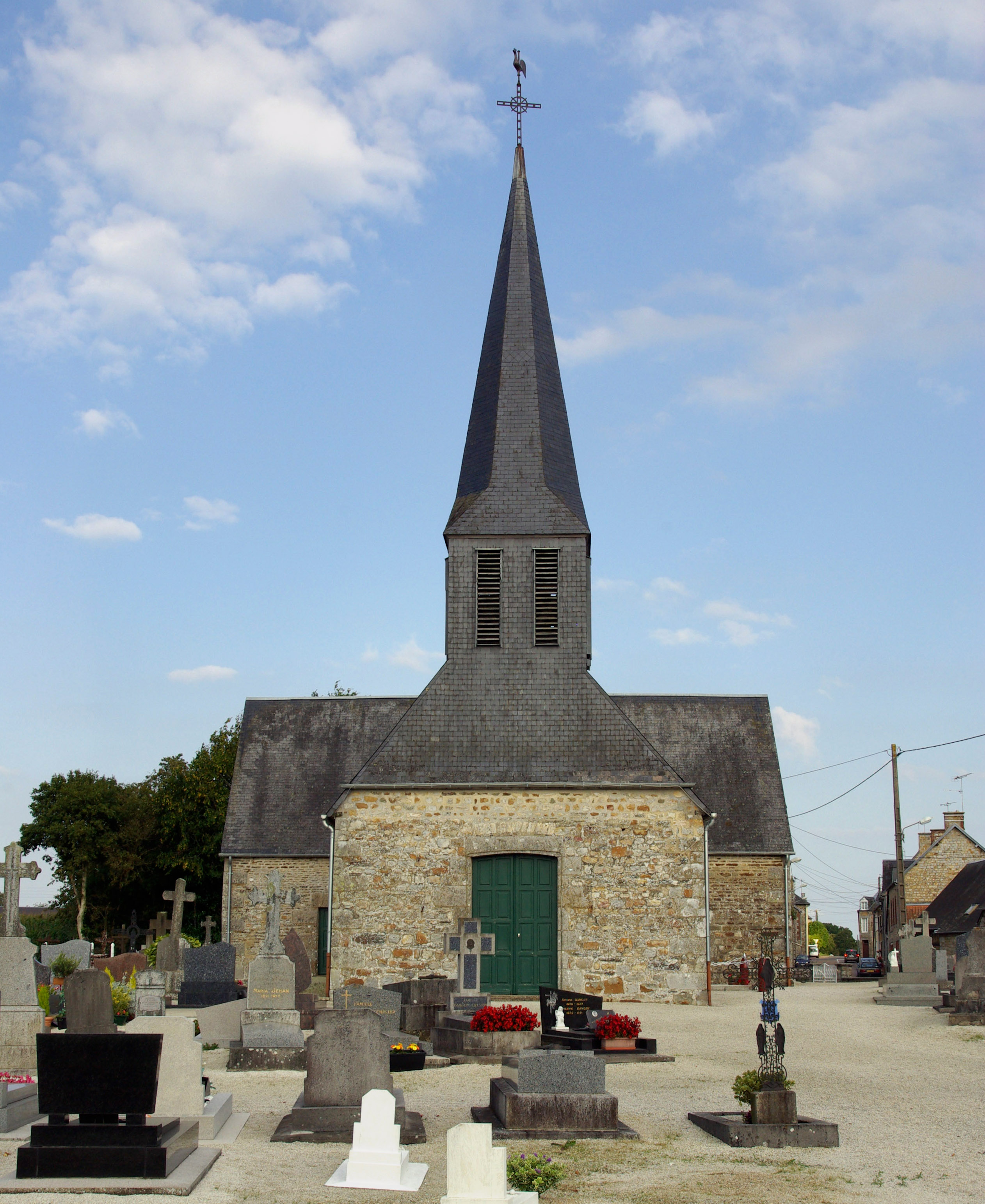 Church Saint-Jean-du-Corail